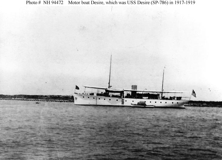 The private motorboat Desire prior to her United States Navy service as the patrol vessel